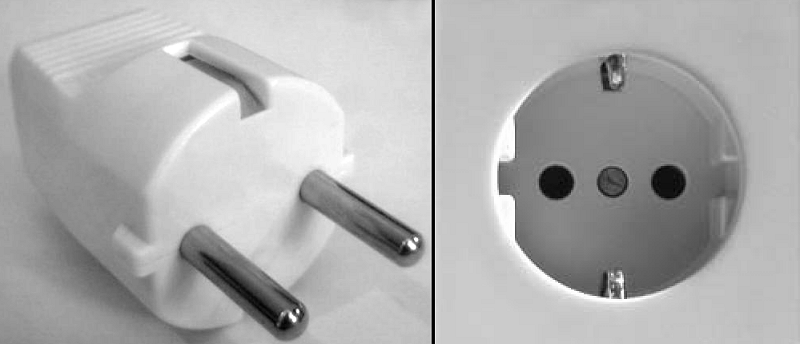 Schuko plug and socket. The image was made for use on Mains electricity by country.